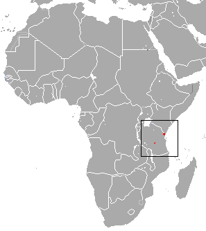 Maendeleo Horseshoe Bat (Rhinolophus maendeleo) range